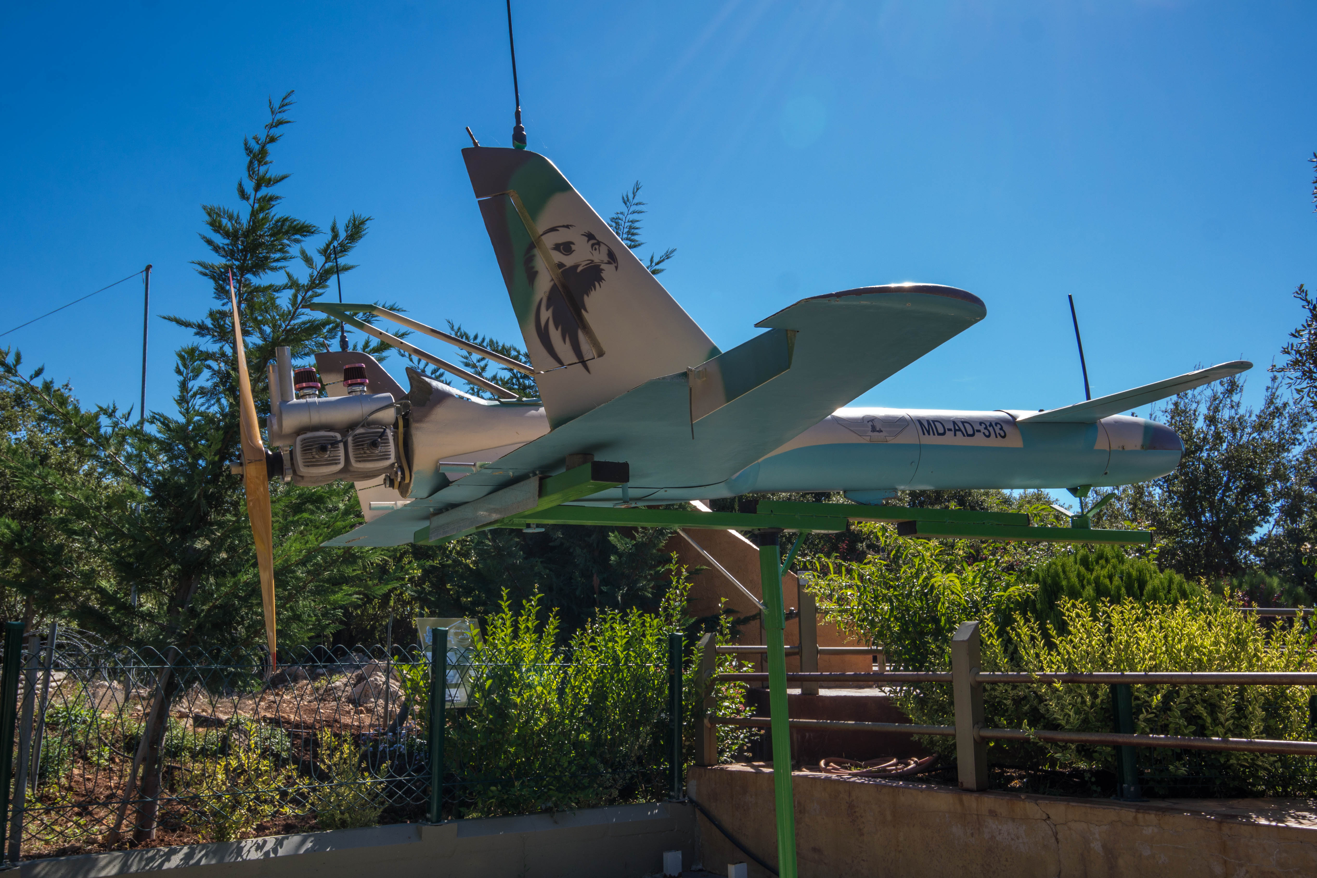 A Hezbollah Ababil UAV on display in their museum in Mleeta, Lebanon. (note: described on placard as "Mirsad-1" drone.)